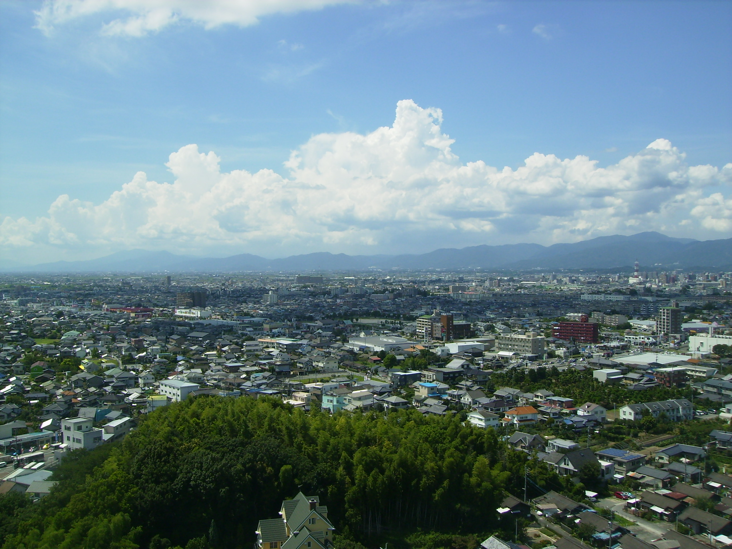 View of Kurume City